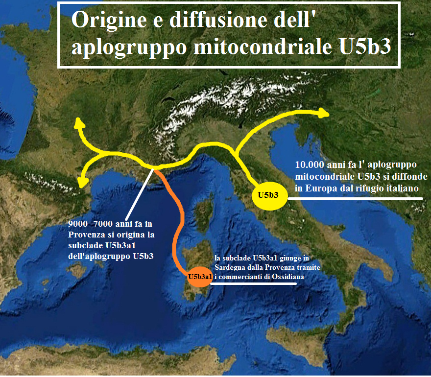 Origin and diffusion of the mtDNA Hg U5b3